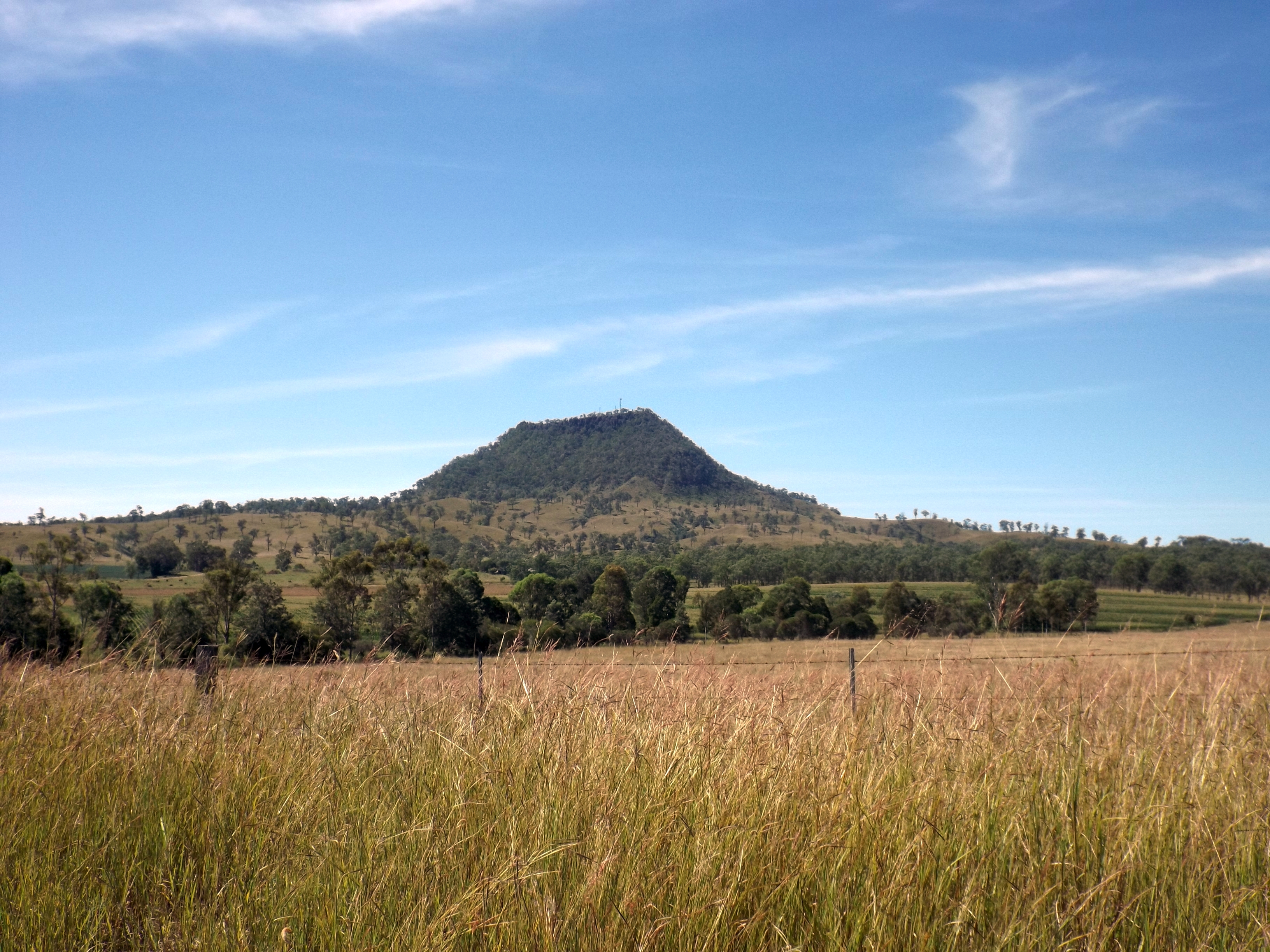 Photo of Mount Walker viewed from Rosewood Warrill View Road at Mount Walker, Scenic Rim Region, Queensland, Australia.